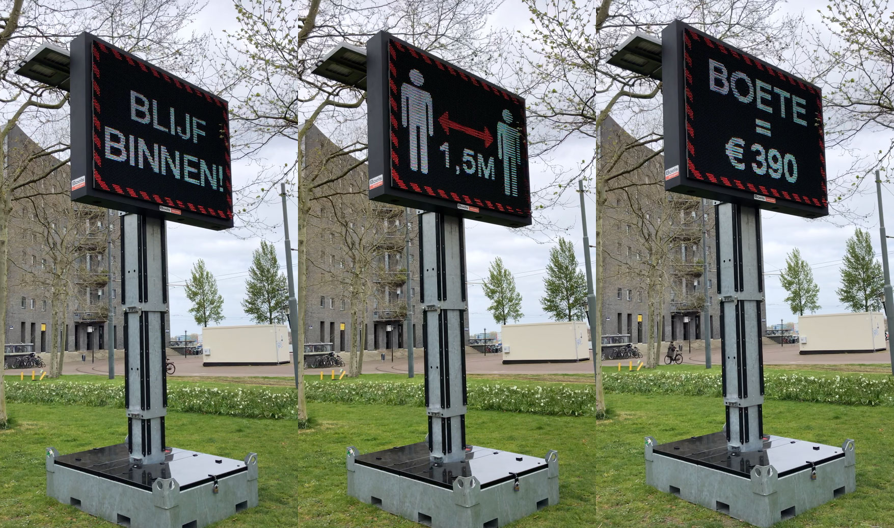 Montage of three states of an electronic sign giving COVID-19 directions near Azartplein in Amsterdam, the Netherlands. The three states are 'Stay inside', keeping a distance of 1.5 meters and 'Fine = €390'.